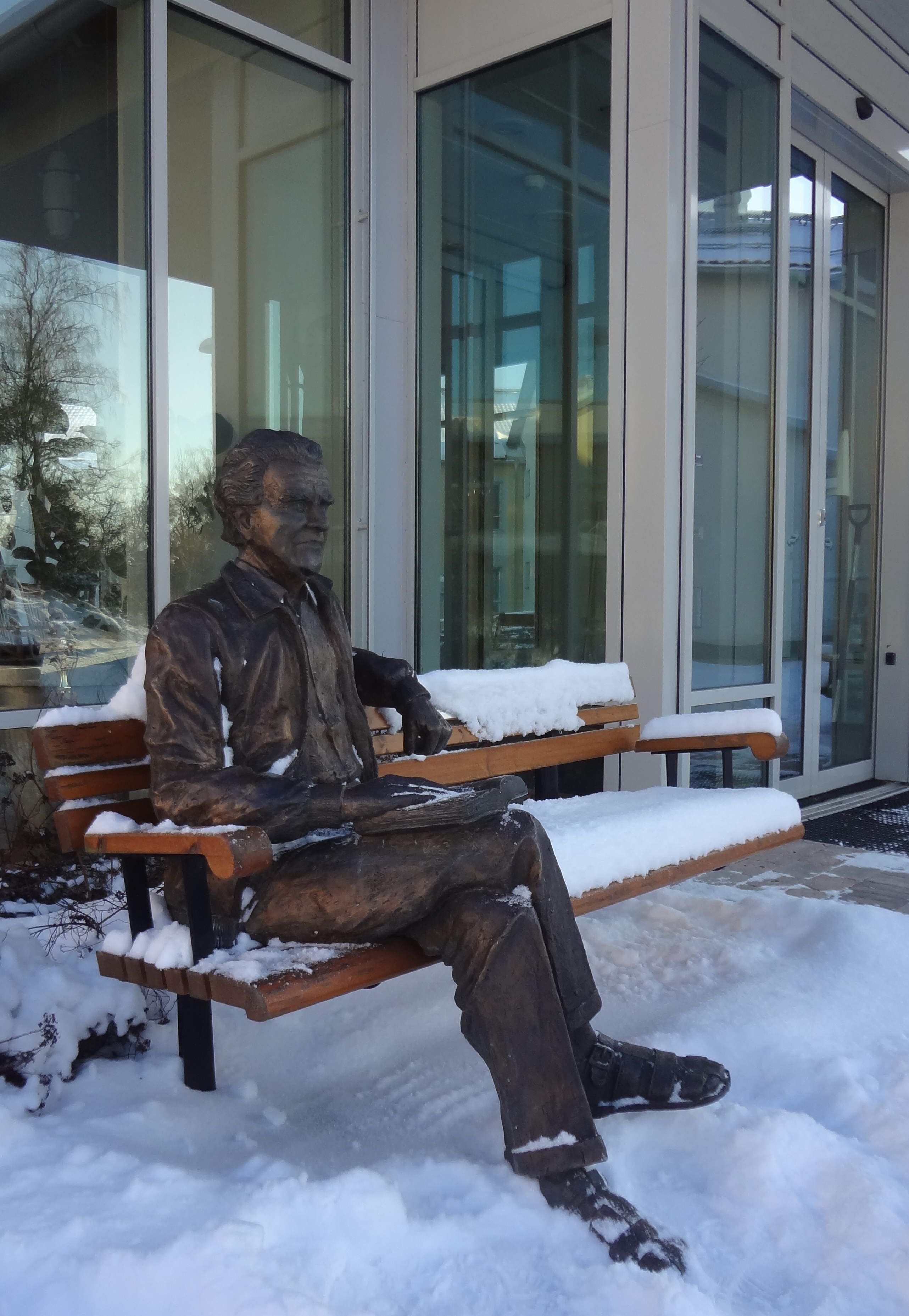 Sculpture of Svante Lundqvist made by Mats Lodén. Placed at Tunagården in Eskilstuna.